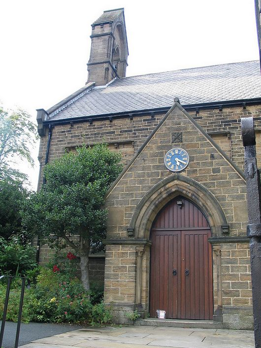 The front doors of St Paul's Church in Shepley, Yorkshire.